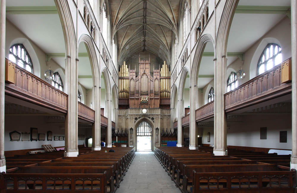 St Luke, Sidney Street, Chelsea, London SW3 - West end, near to Chelsea, Kensington And Chelsea, Great Britain.